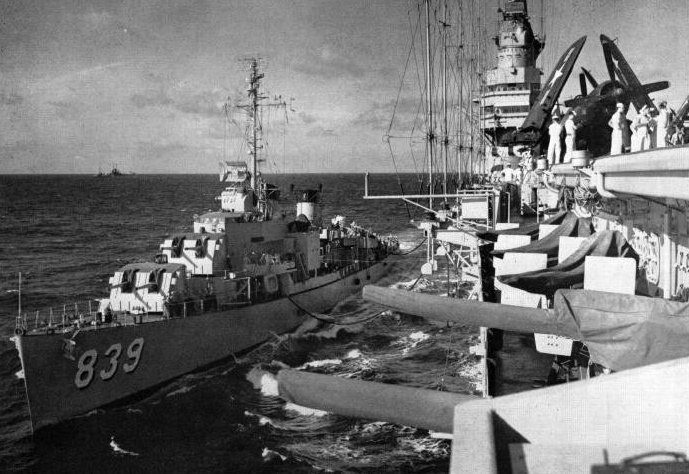 The U.S. Navy aircraft carrier USS Midway (CVB-41) refuelling the Gearing-class destroyer USS Power (DD-839). Midway, with embarked Carrier Air Group 1 (CVBG-1) was deployed to the Mediterranean Sea from 29 October 1947 and 11 March 1948.